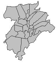 Map of Luxembourg City, Luxembourg, with the boundaries of the city's twenty-four quarters demarcated.